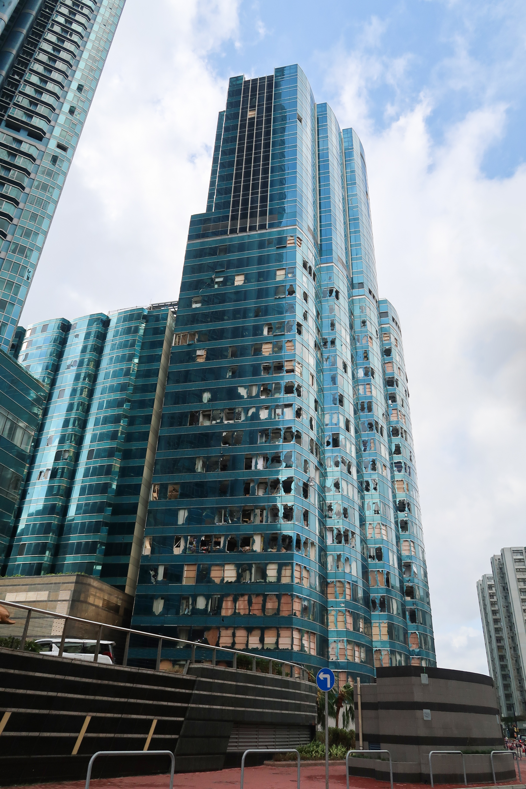 Two_Harbourfront after Typhoon Mangkhut